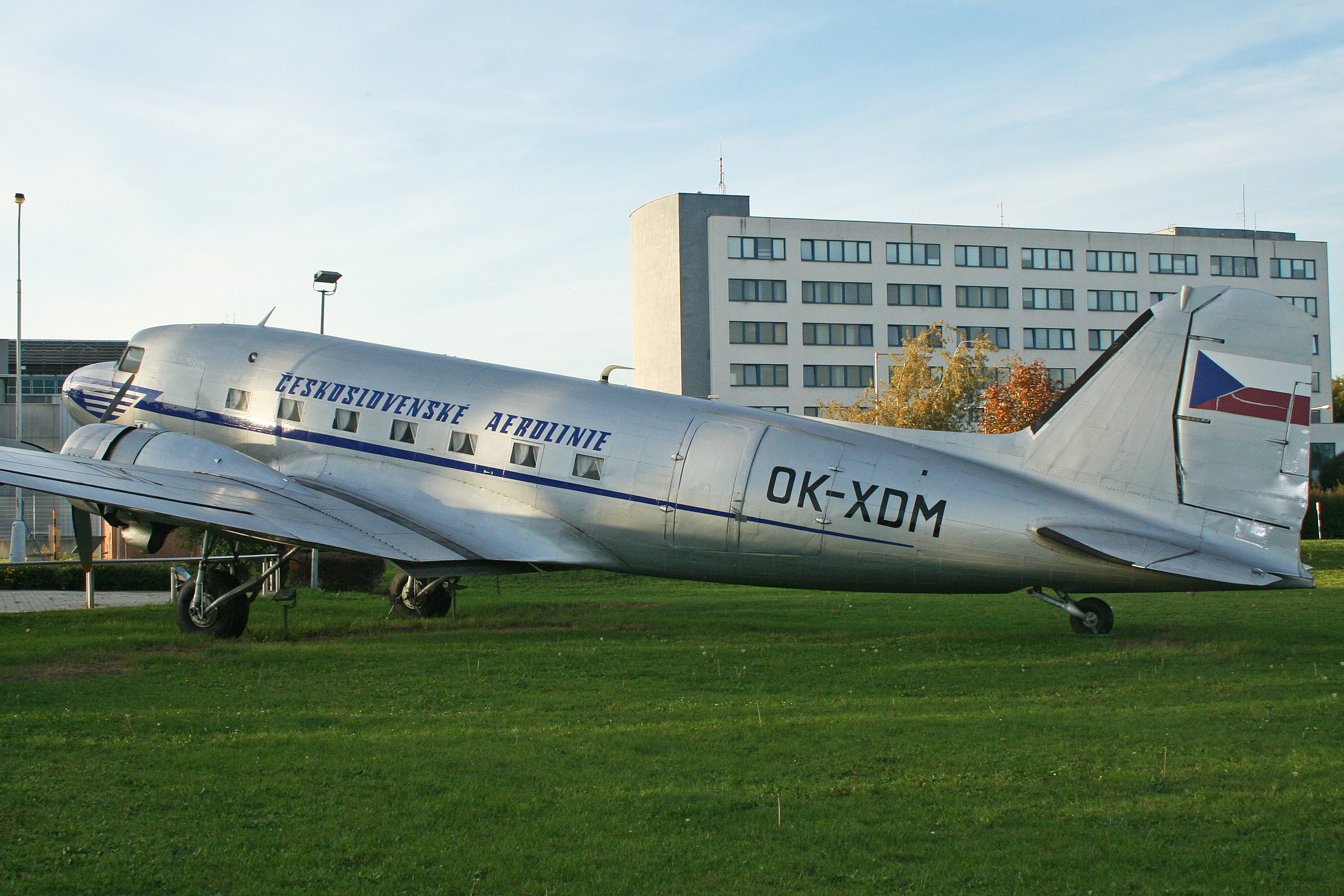 Preserved outside the CSA HQ building in the middle of Prague Airport. This is actually a pre-war DC-3-229, msn1995, which was delivered new to Panagra as NC18119 on 19th October 1937. It saw no military service and was eventually flown to Prague for preservation in June 1991. Oddly enough, the original 'OK-XDM' still exists and is on display at a museum in France! Prague Airport, Czech Republic. 08-10-2012